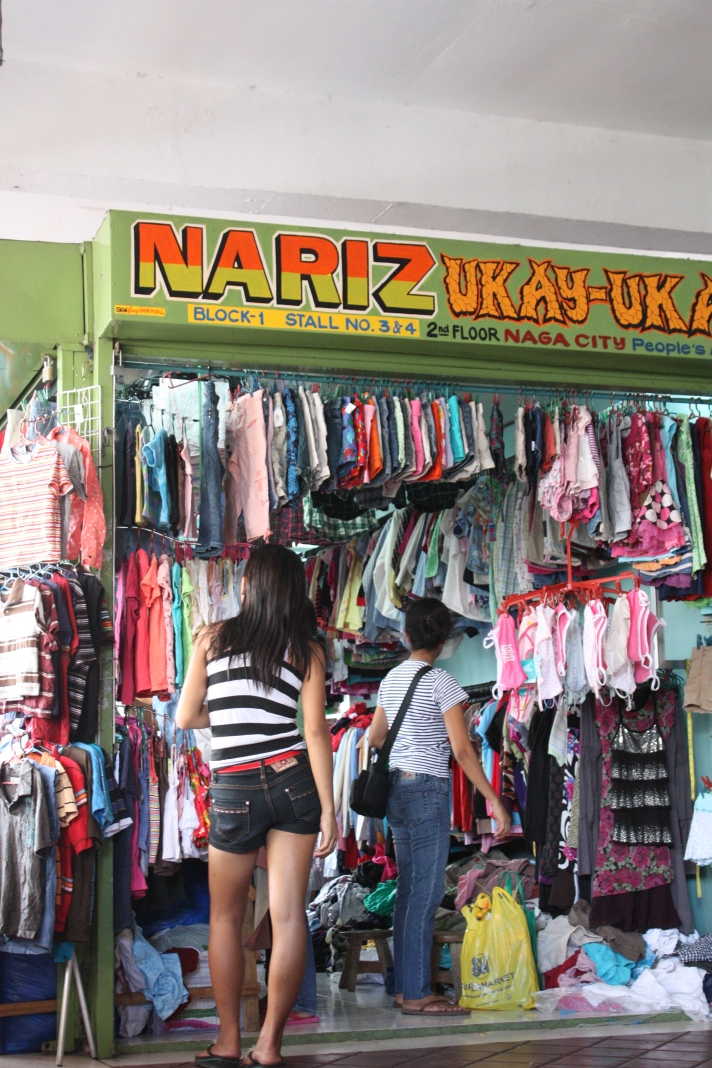 ukay-ukay store